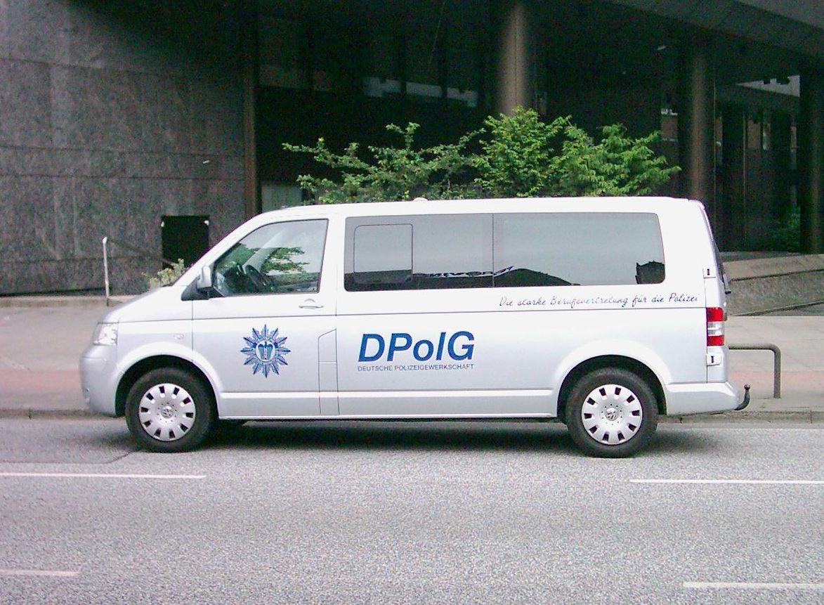 Van of a german police trade union. Beside the ASEM protest in Hamburg 2007-05-28.